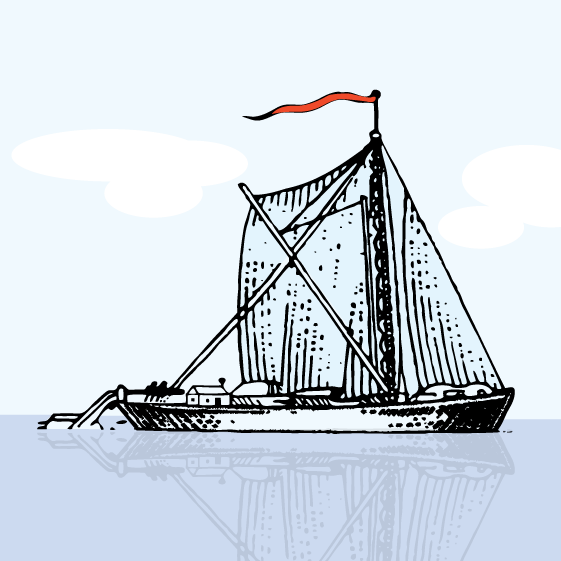 Baydak (XVI-XX cent. small transport ship at Dnepr and Nemunas rivers) XVI-XX century